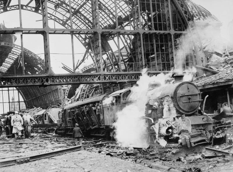 Air Raid Damage in Britain- Middlesborough A railway engine and coaches seriously damged at Middlesborough station after a German air raid.